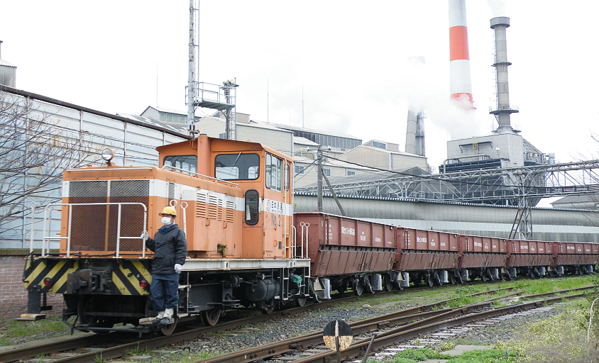 Limestone freight wagons being pushed by a switcher at Central Glass Co., Ltd.